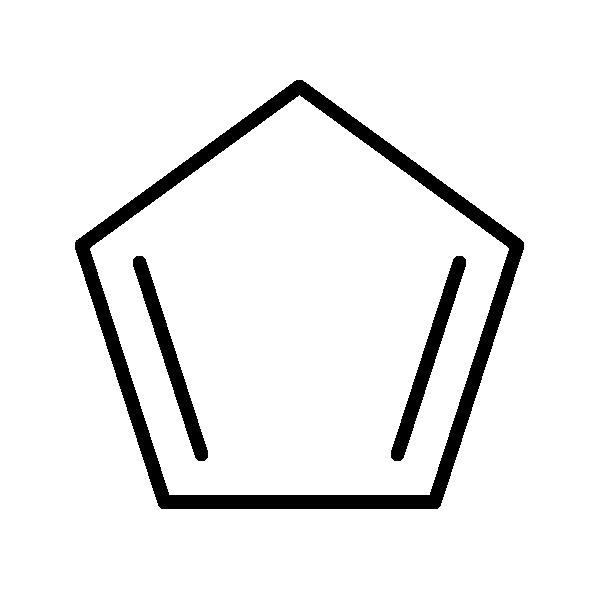 Cyclopentadiene, created with Chemsketch 8